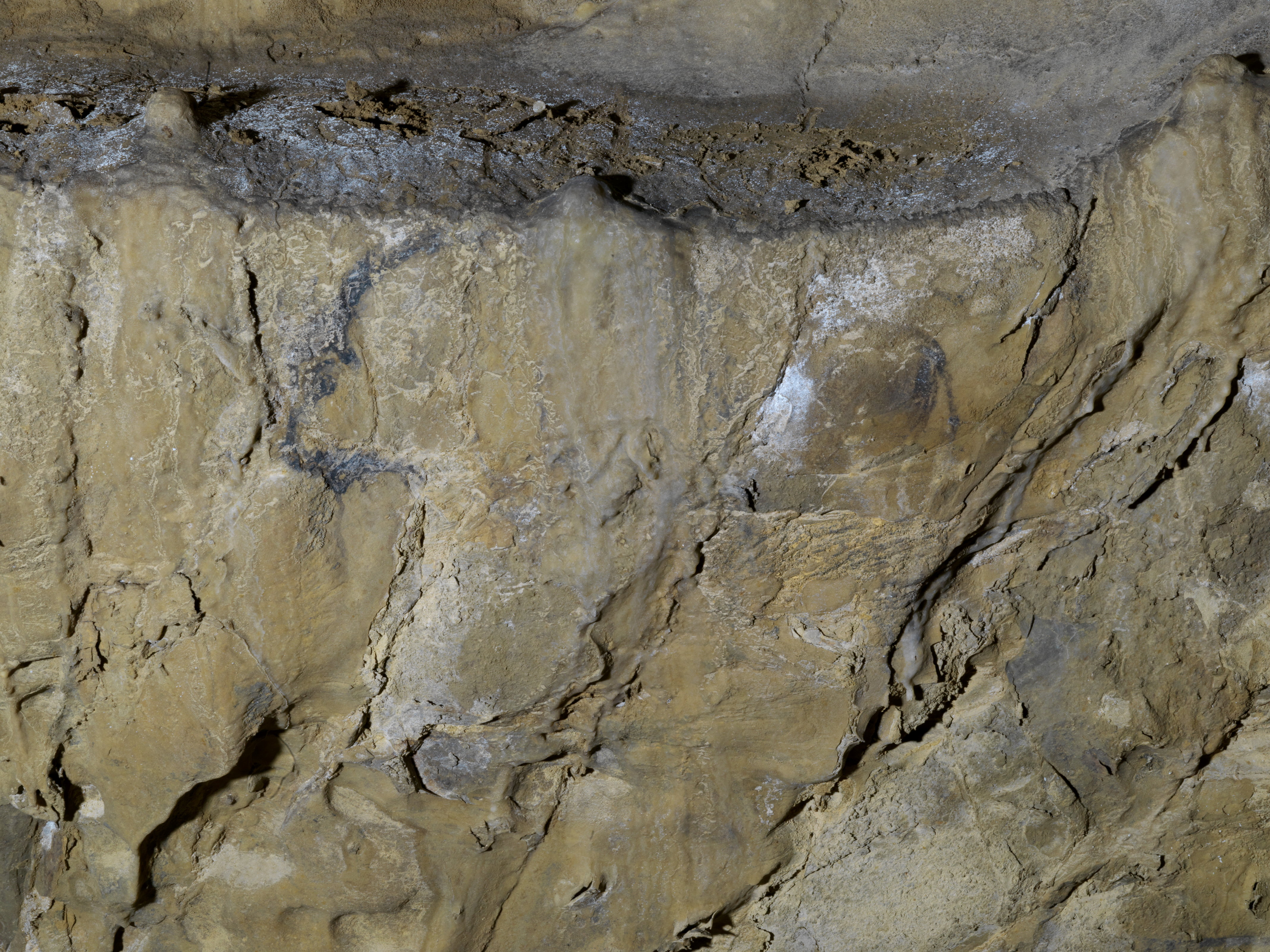 Bison painted black which hardly see the head and the tail. The rest of the figure has been covered by a calcareous concretion.